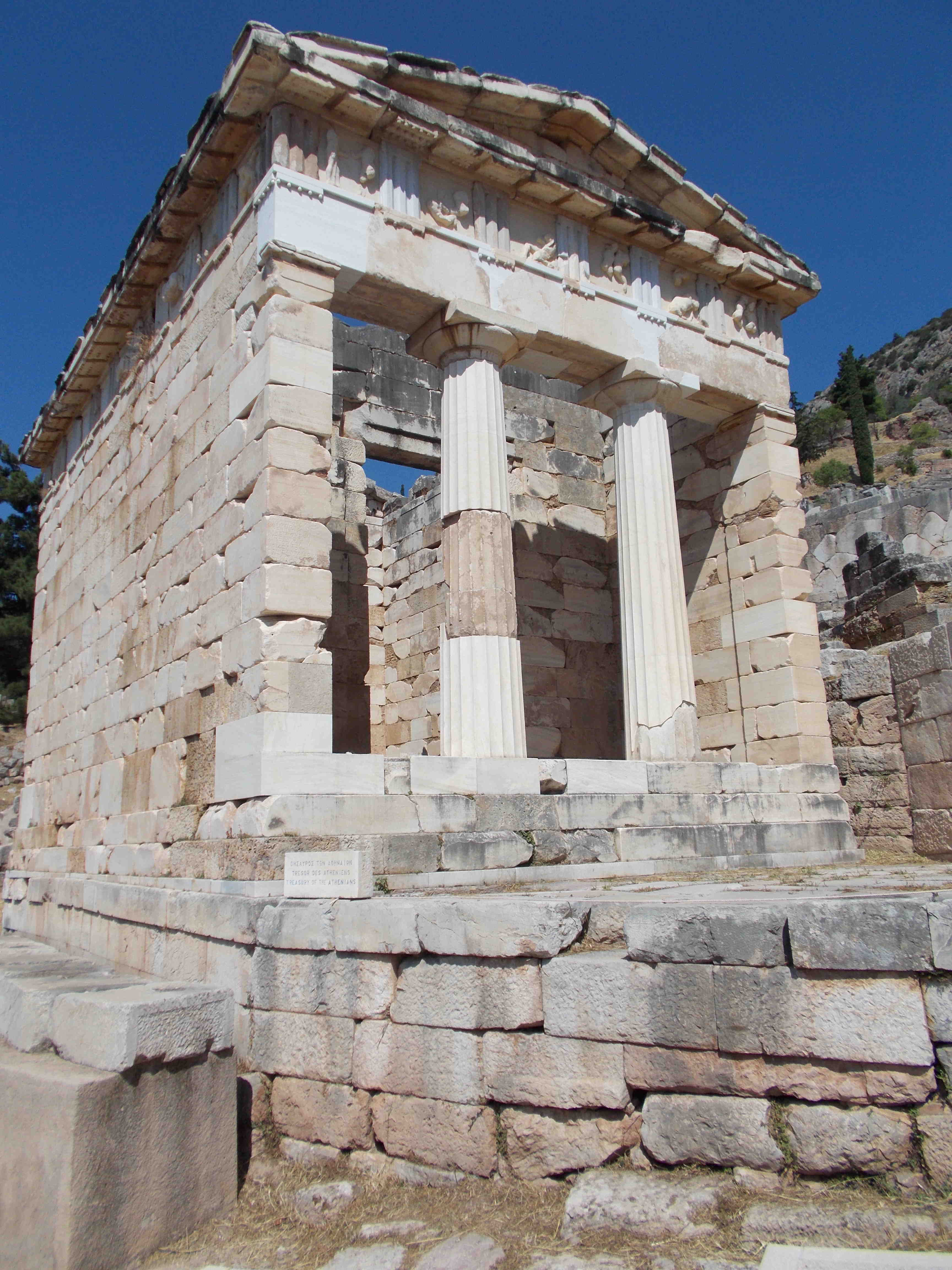 Treasury house of Athens in Delphi